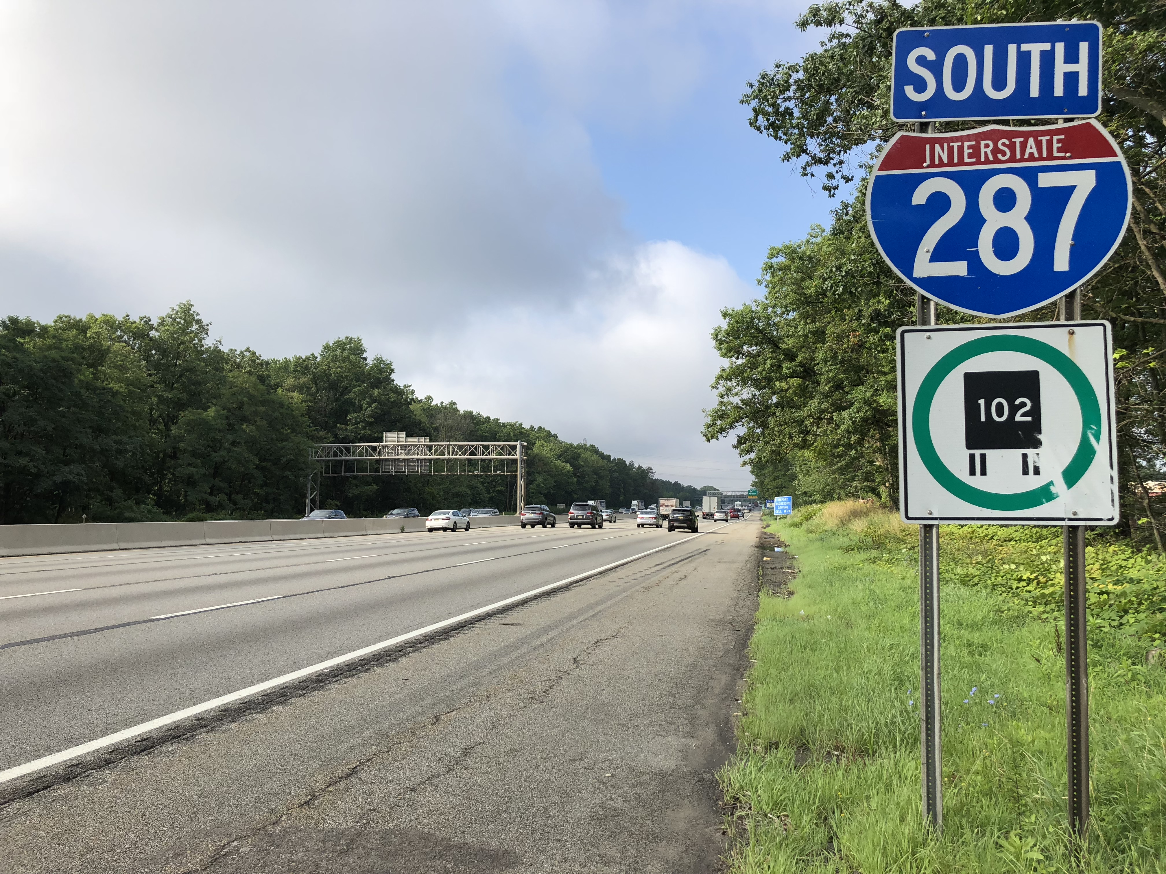 View south along Interstate 287 between Exit 40 and Exit 39 in Hanover Township, Morris County, New Jersey